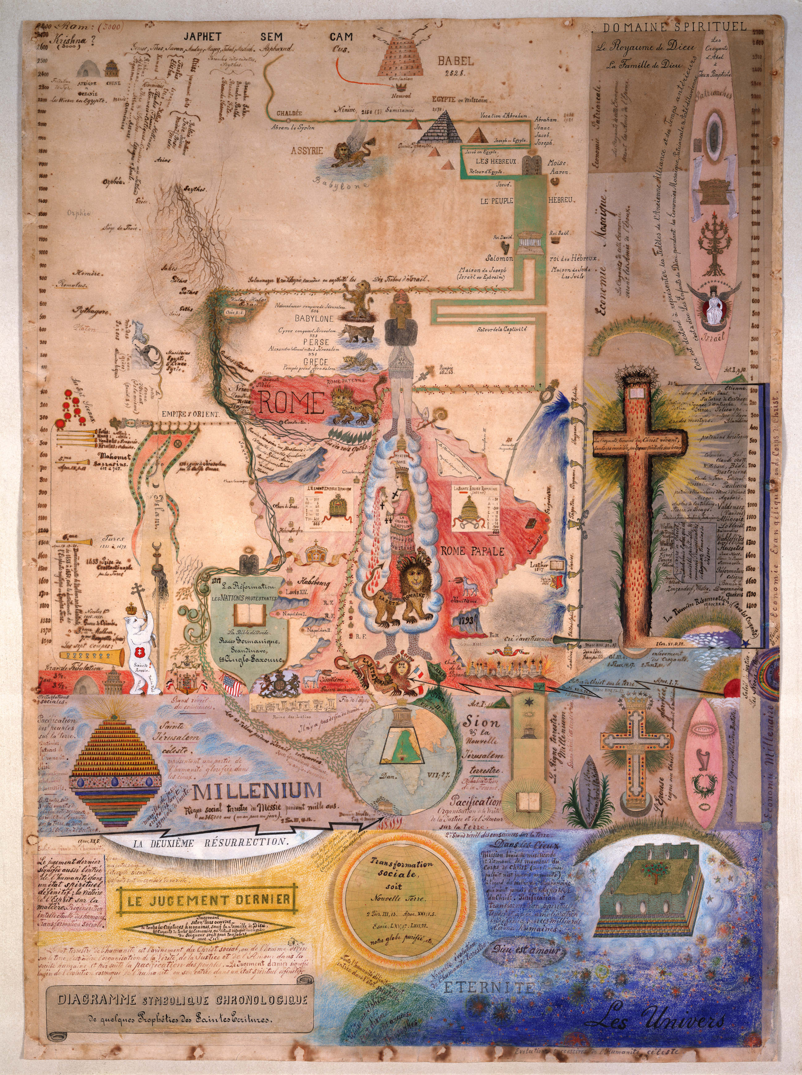 In 1887, Henry Dunant, the founder of the Red Cross, settled in Heiden (Switzerland), where he lived quietly and devoted himself to religious devotion and contemplation. He assiduously reread the Bible – he was especially fascinated by the Book of Daniel and the Apocalypse – and felt himself to be invested with a spiritual mission. He undertook to explain his prophetic understanding of history in four large didactic diagrams. His views were based largely on the ideas of the pastor Louis Gaussen (1790–1863), an influential figure of the Protestant Awakening in Geneva, who advocated a direct relationship between believers and God. Dunant spent considerable time on the drawings, organising the symbolic elements according to a strict logic, making preparatory sketches and painstakingly incorporating drawings and colourings into his chronology. Through these depictions of the history of prophetic and apocalyptic salvation, the founder of the Red Cross outlined his vision of a better world. The diagrams summarized all his universal ideas and marshalled them as proof of the worsening scourge of militarism and the coming final cataclysm. At that time, Dunant was convinced that the apocalypse was imminent.